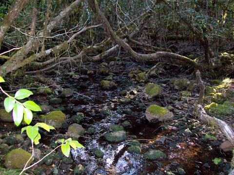 Dilgry River, altitude 1420 metres